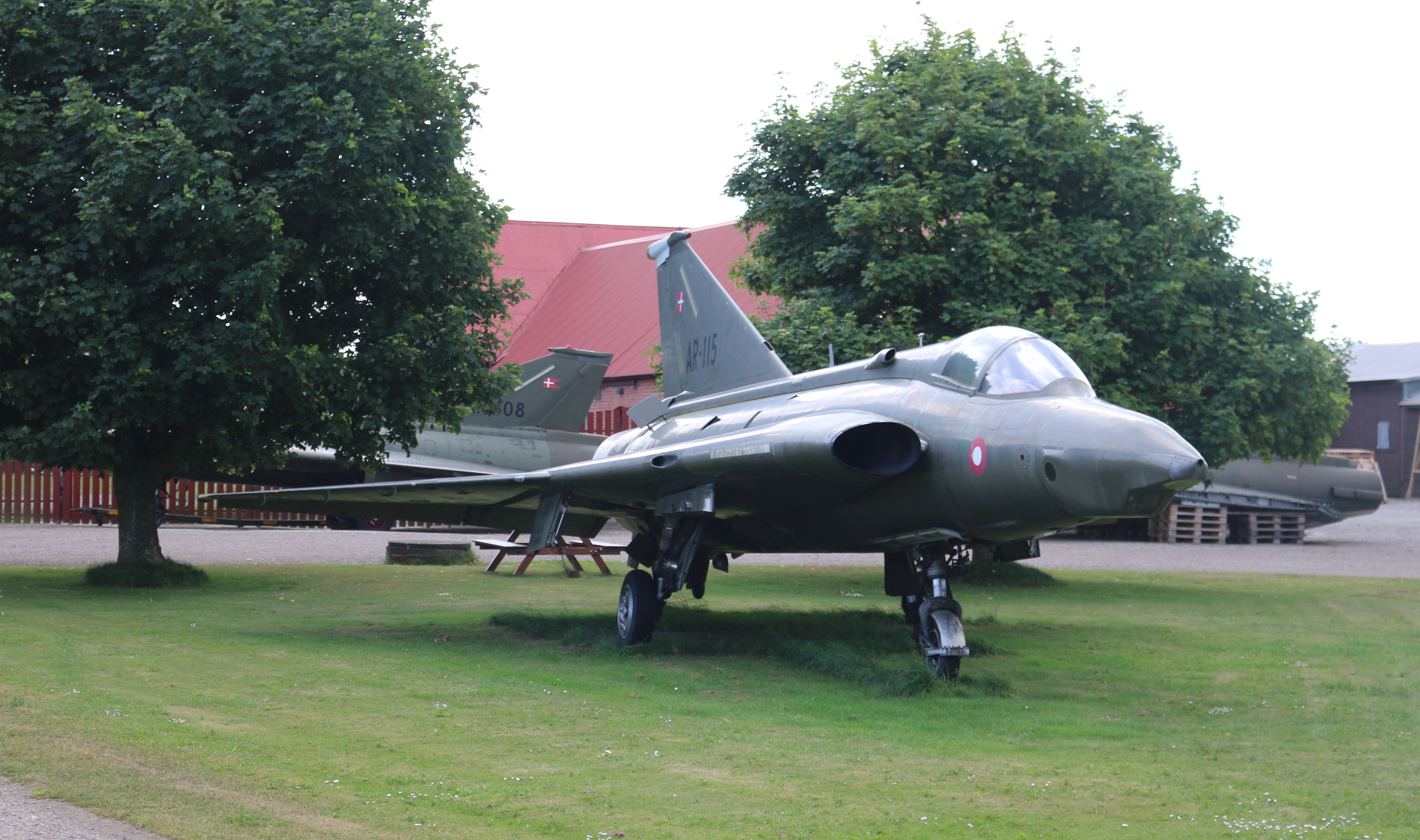 Saab RF-35 Draken, delivered to the Danish Air Force 24 November 1971. Last flight 28 june 1992. Here displayed at Österlens flygmuseum.